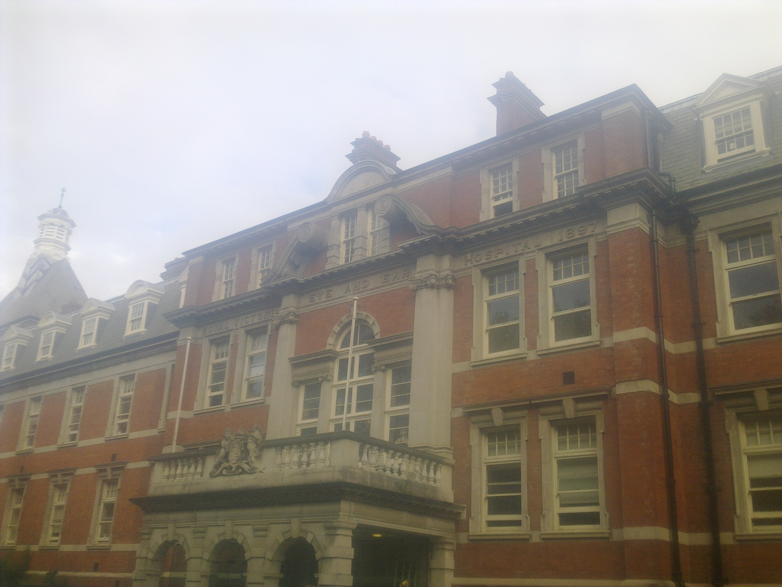 The Royal Victoria Eye and Ear Hospital Adelaide road